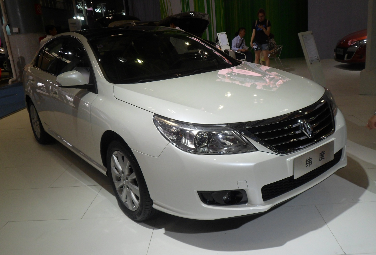 Renault Latitude photographed at the 2012 Chongqing Auto Show, Chongqing, China